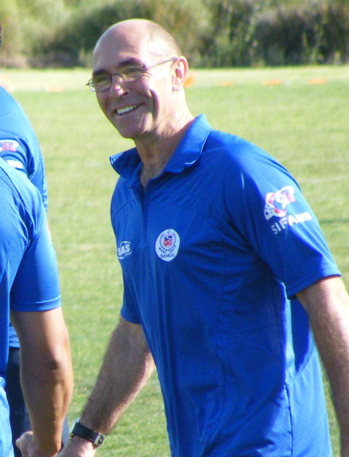 RLWC 2008 - Samoa v France at Penrith. Samoa Coach John Ackland.